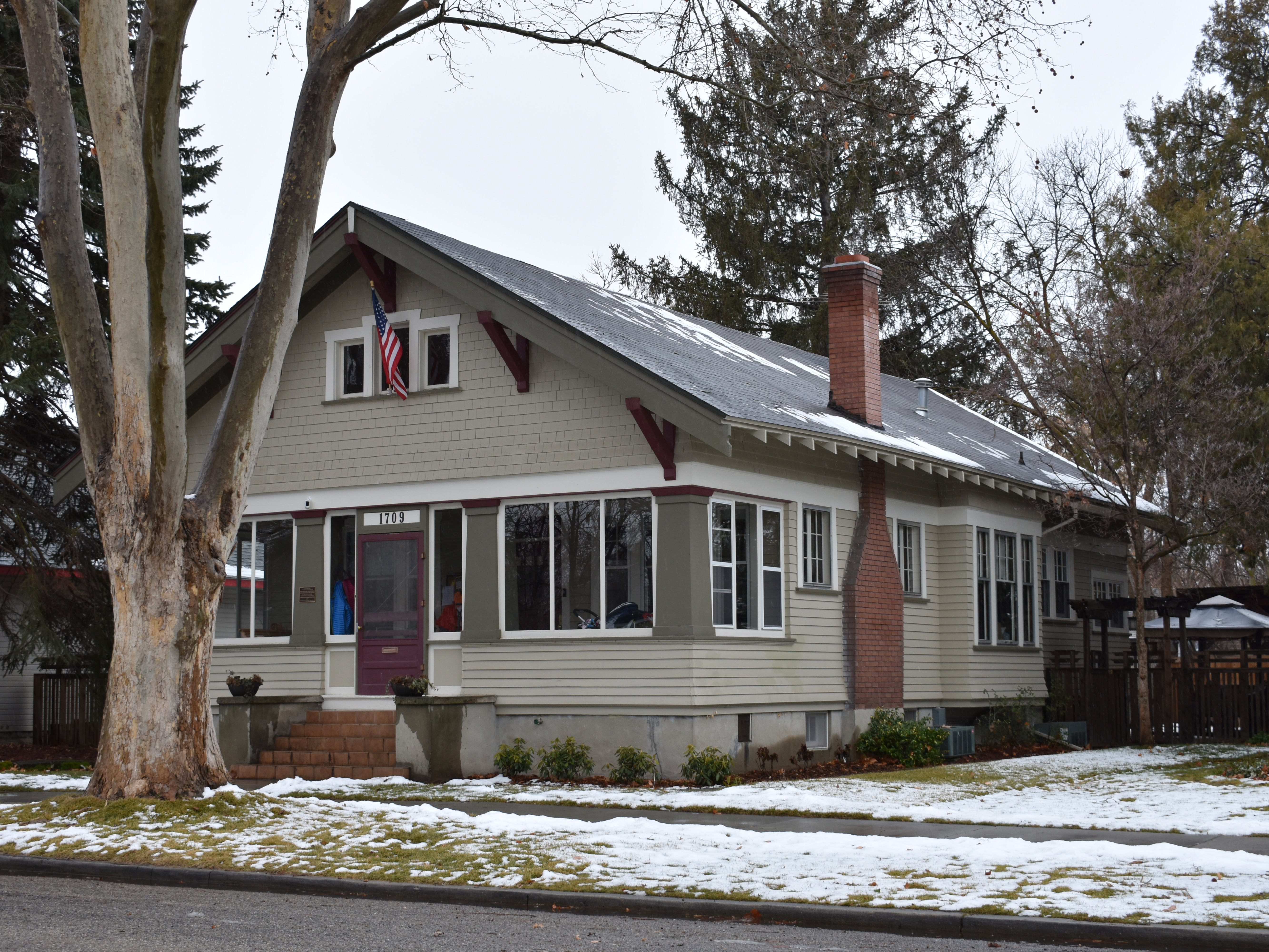 The Louis Stephan House (1915) in Boise, Idaho, was designed by Tourtellotte & Hummel and is listed on the National Register of Historic Places.